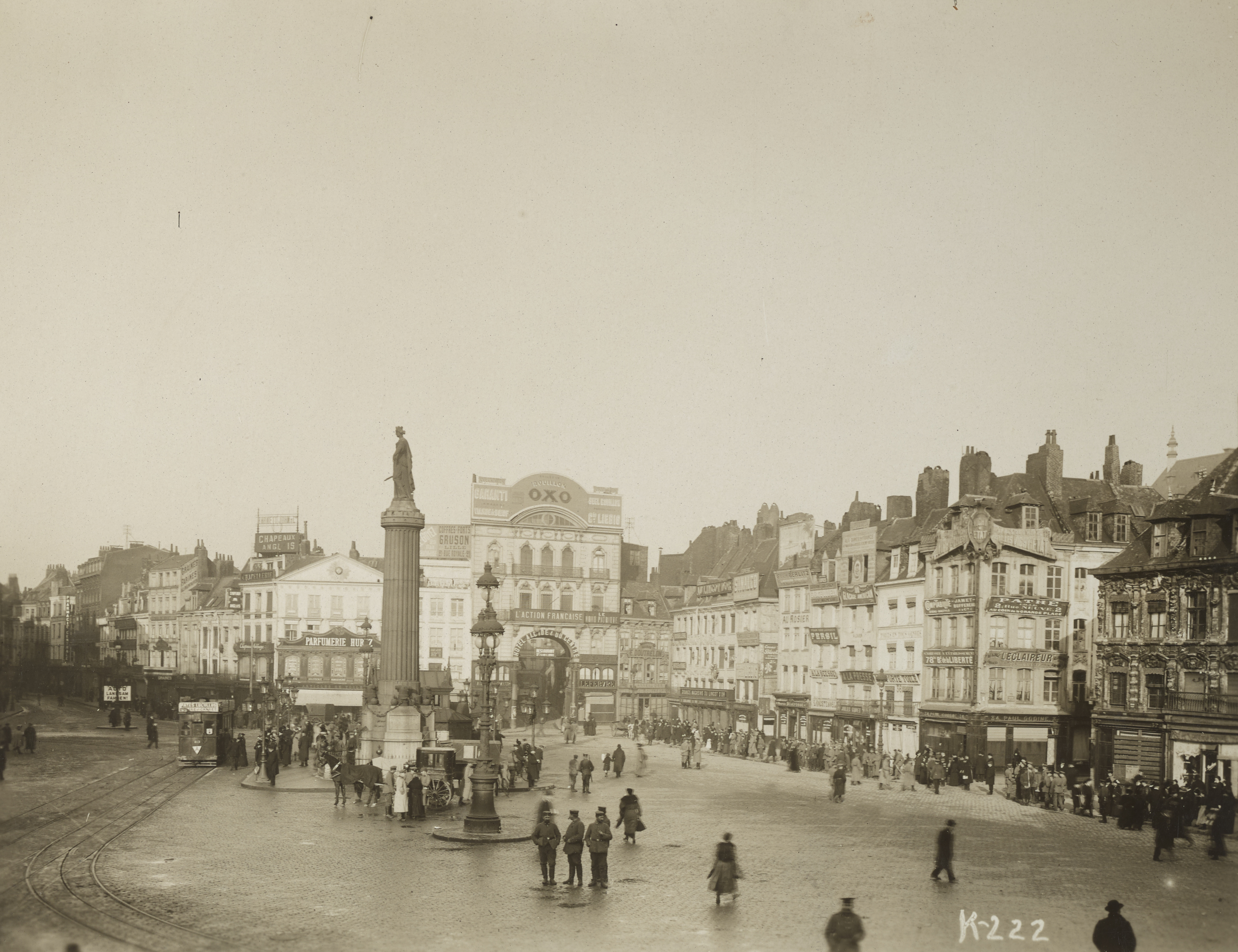 Scope and content: Photographer: Brown and Dawson